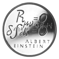 Swiss Commemorative Coin 1979 B CHF 5 obverse